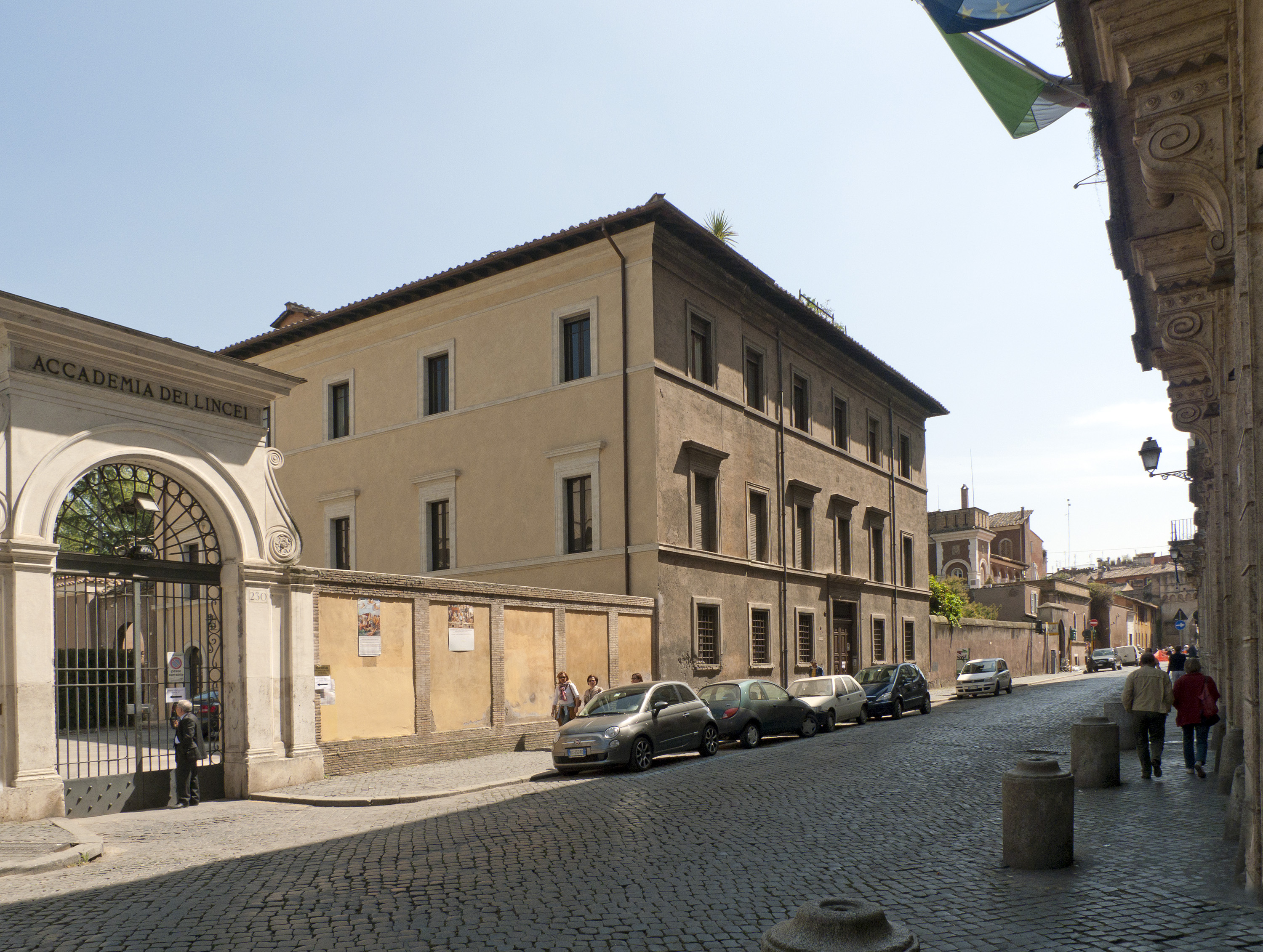 Casino Farnese exterior.